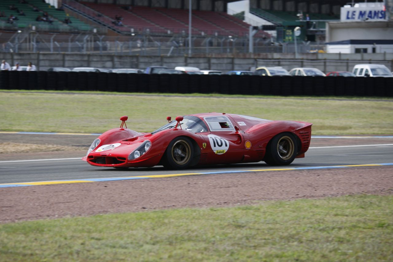 1966 Ferrari 330 P3/412 P s/n 0844 at LM Story 2007